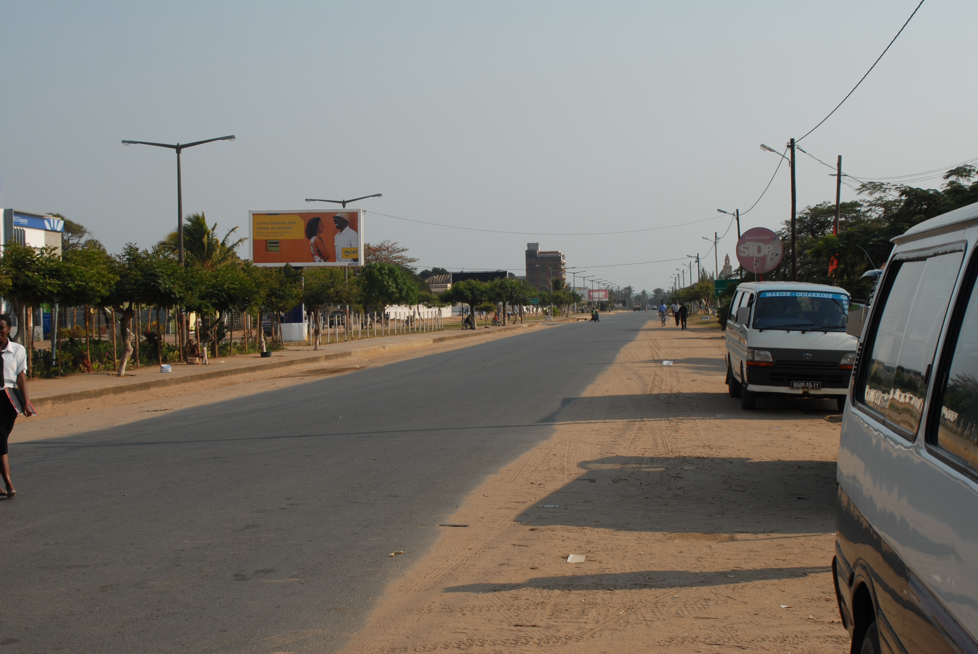 EN1 road in Maxixe, Inhambane, Mozambique